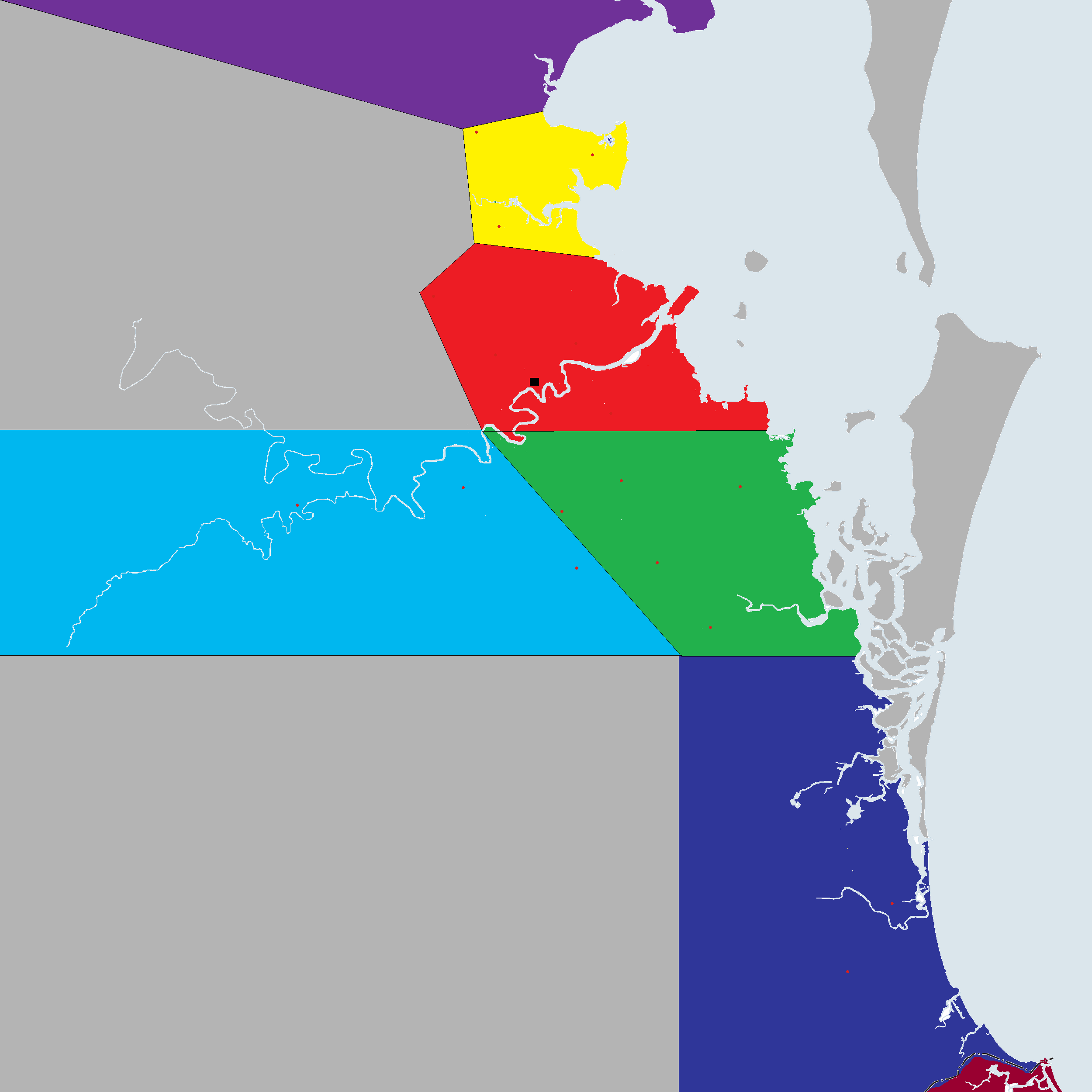 The regions in south-east Queensland as set by Baseball Queensland as of 2009. Sunshine Coast is represented by the purple shaded region, Brisbane North by the yellow, Brisbane Metro by the red, Brisbane South by the green, Brisbane West by the sky blue and Gold Coast by the navy shaded region, northern New South Wales can also be seen on this map, this region, known as Far North Coast, stretches as south as Ballina and is shaded burgundy. Not shown on the map is North Queensland which represents Queensland north of Townsville. The grey areas are regions of Queensland without recognised clubs.